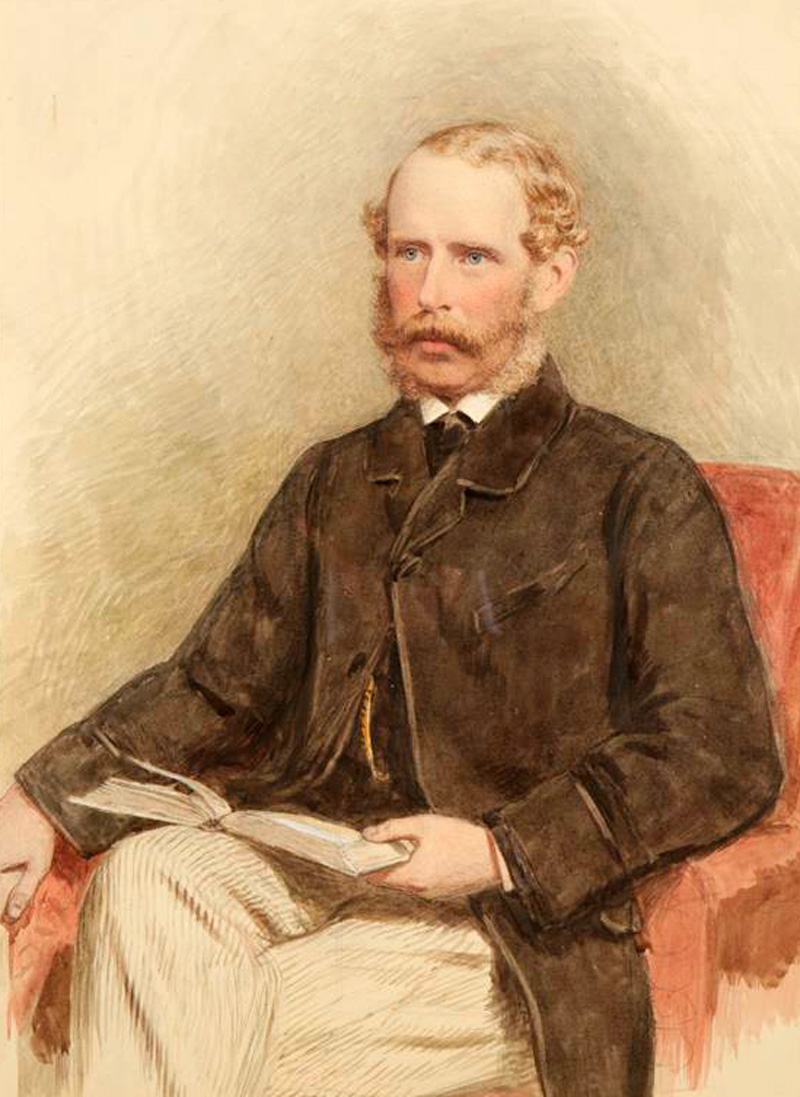 William Leigh Mellish, owner of Hodsock Priory